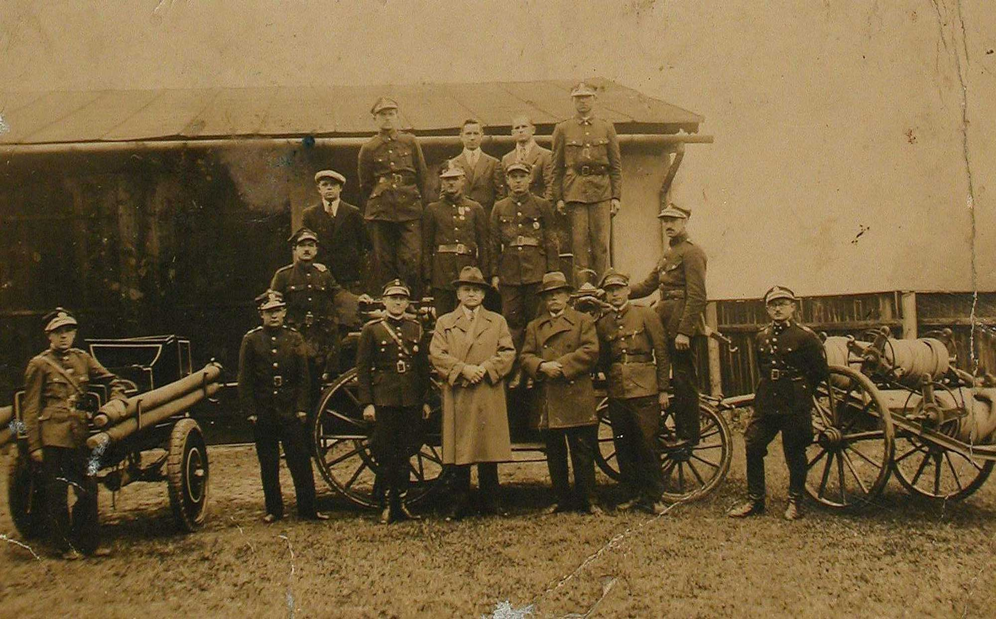 Postcard - volunteer fire brigade in Kęty, Poland (1934)